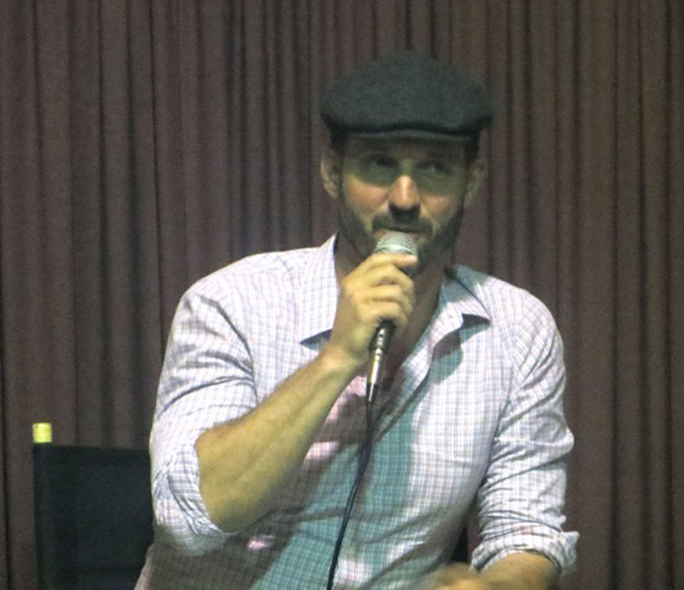 Mollner in a Q&A at the Sundance 2016 premiere of Outlaws and Angels